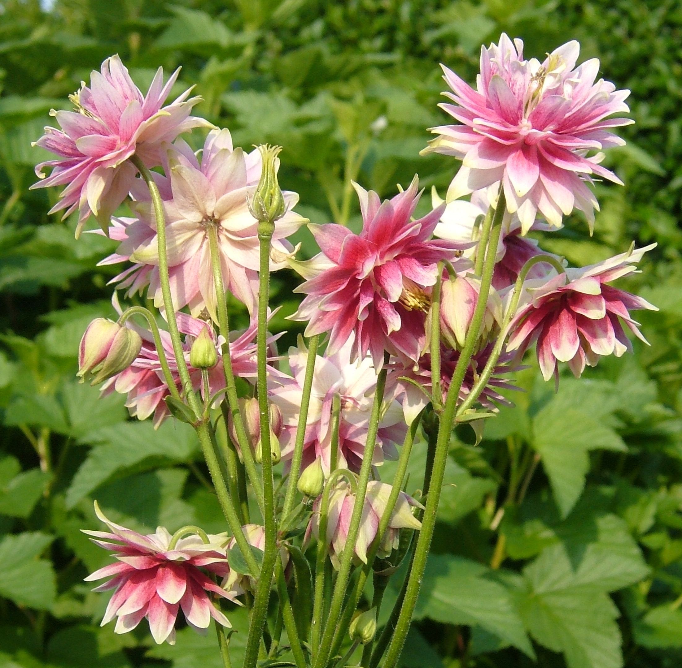 Aquilegia 'Nora Barlow'